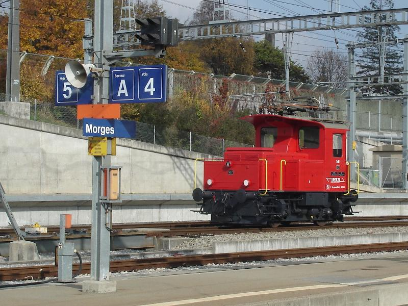 Former SBB shunter Te III now owned by MBC to move standard gauge wagons to and from the narrow gauge transporter trucks in Morges.